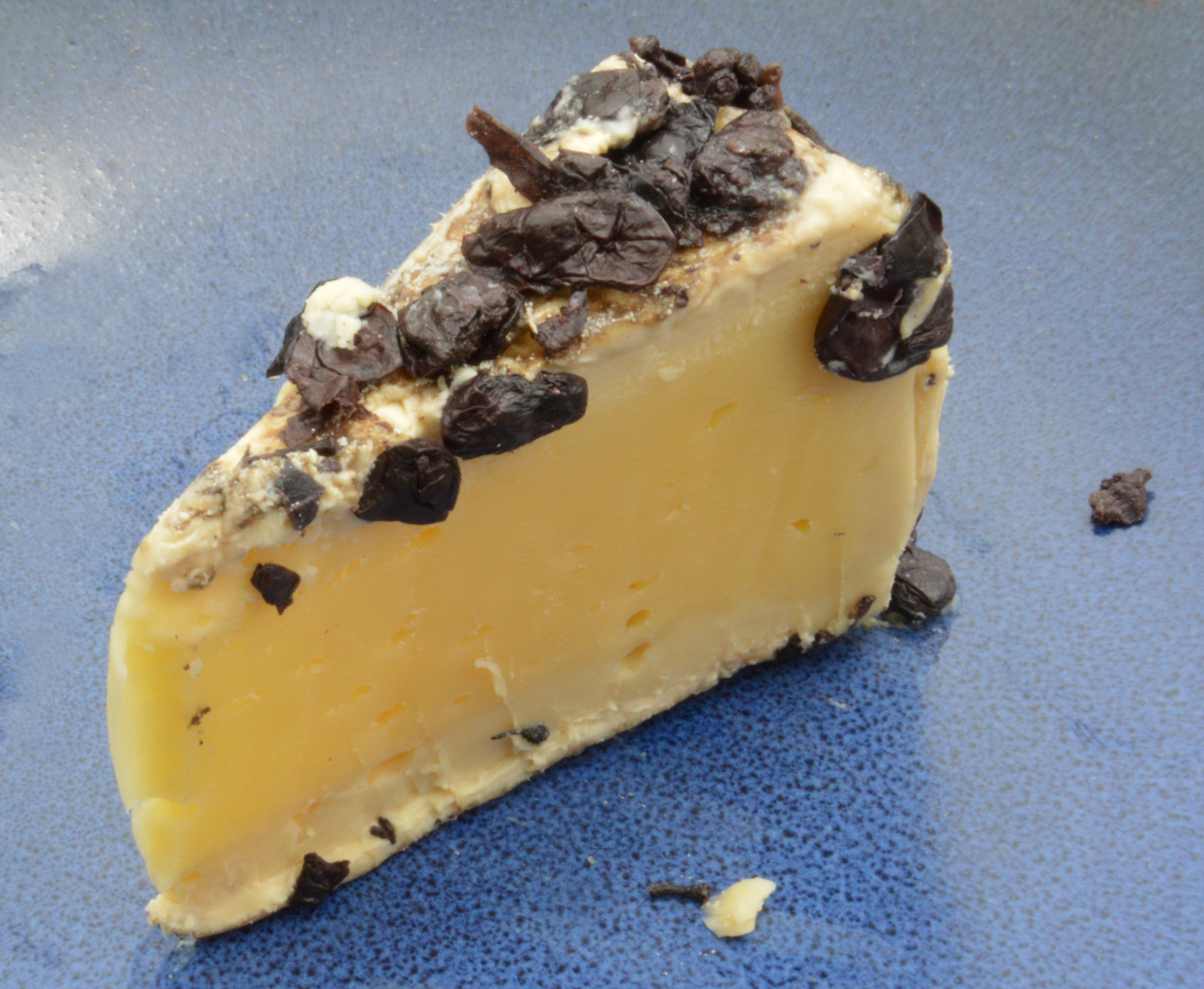 "Tomme au Marc de Raisin" cheese (with grape pomace)